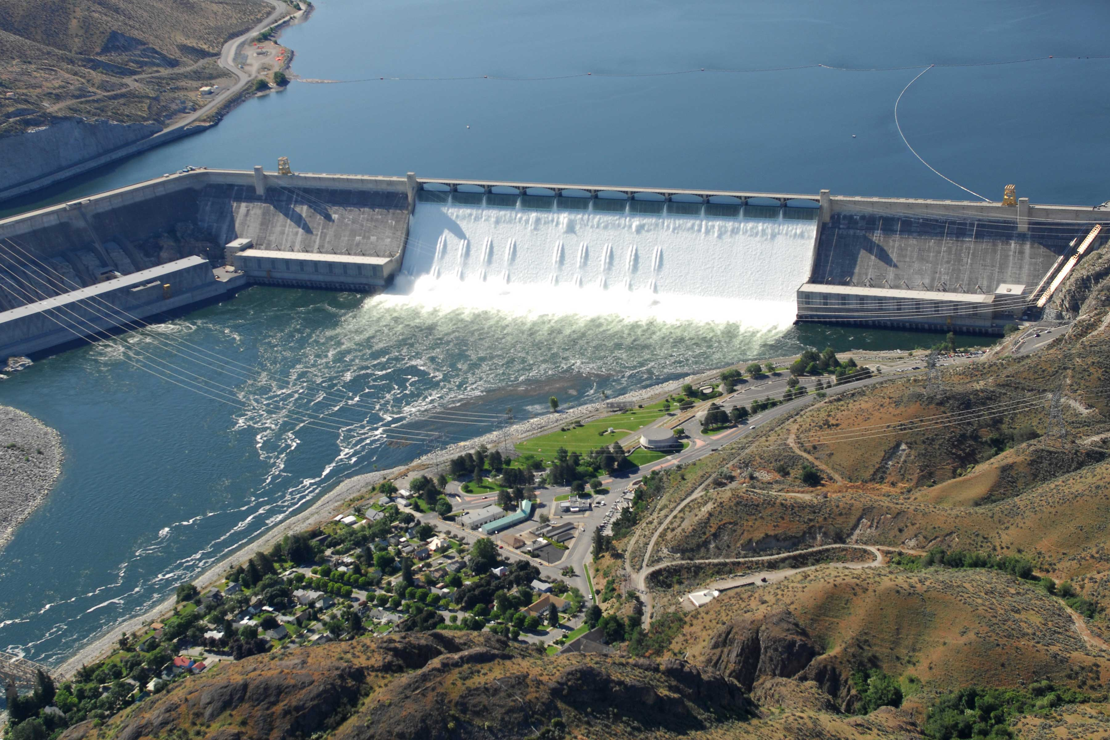 Grand coulee dam aerial